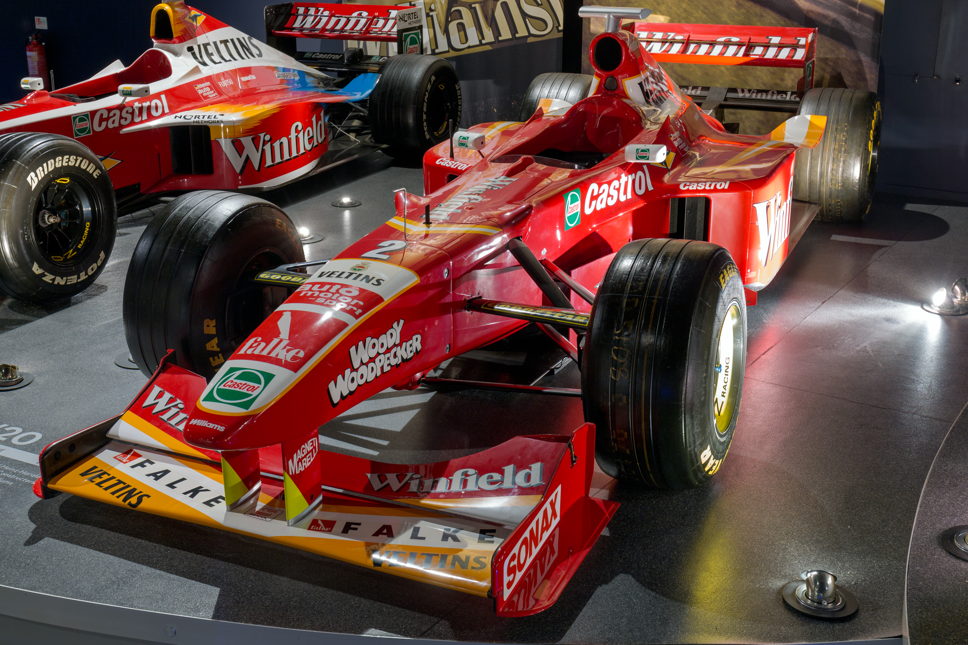 Williams Conference Centre (Grove): Williams FW20 of Heinz-Harald Frentzen